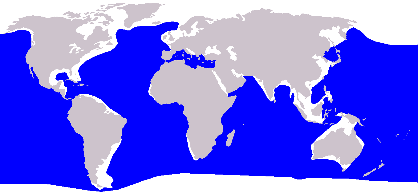 Cetacea range map for Cuvier's Beaked Whale (Ziphius cavirostris)